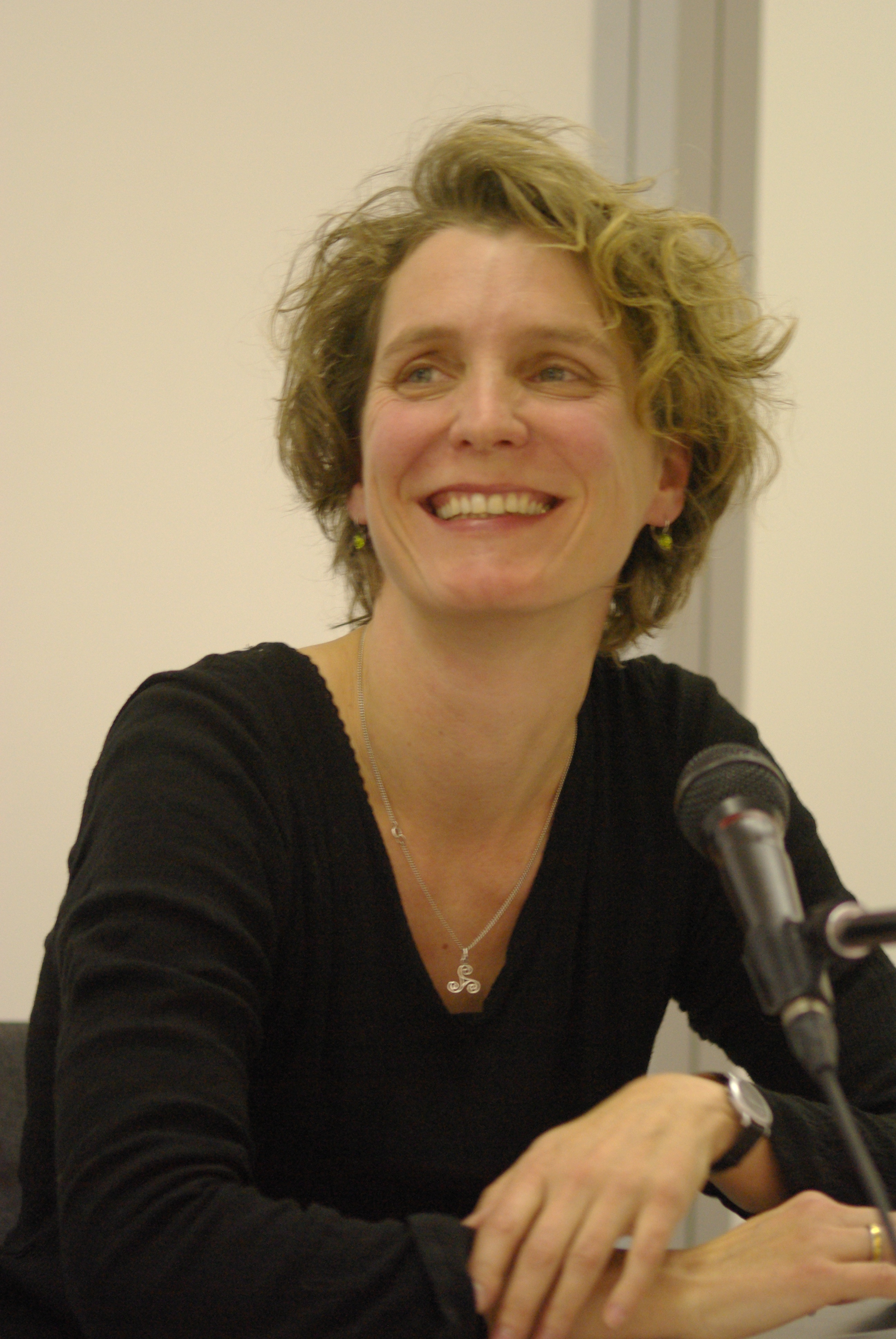 German writer Annette Pehnt at the 12 Moscow International Fair of Intelectual Books, Non-Fiction 2010